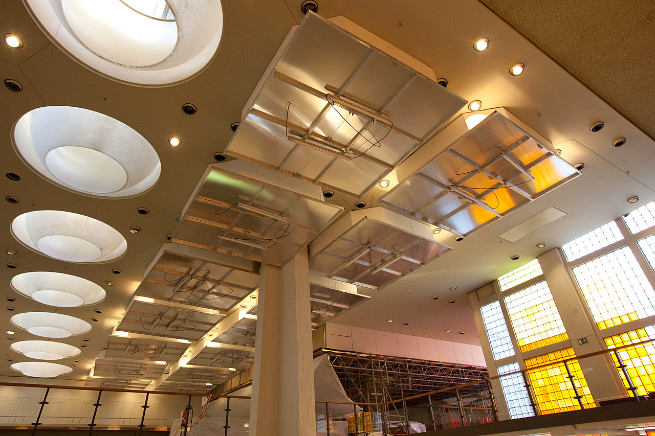 The "light bubbles" in the main reading room of the Staatsbibliothek zu Berlin (Potsdamer Straße building), covered for asbestos abatement in August 2011.